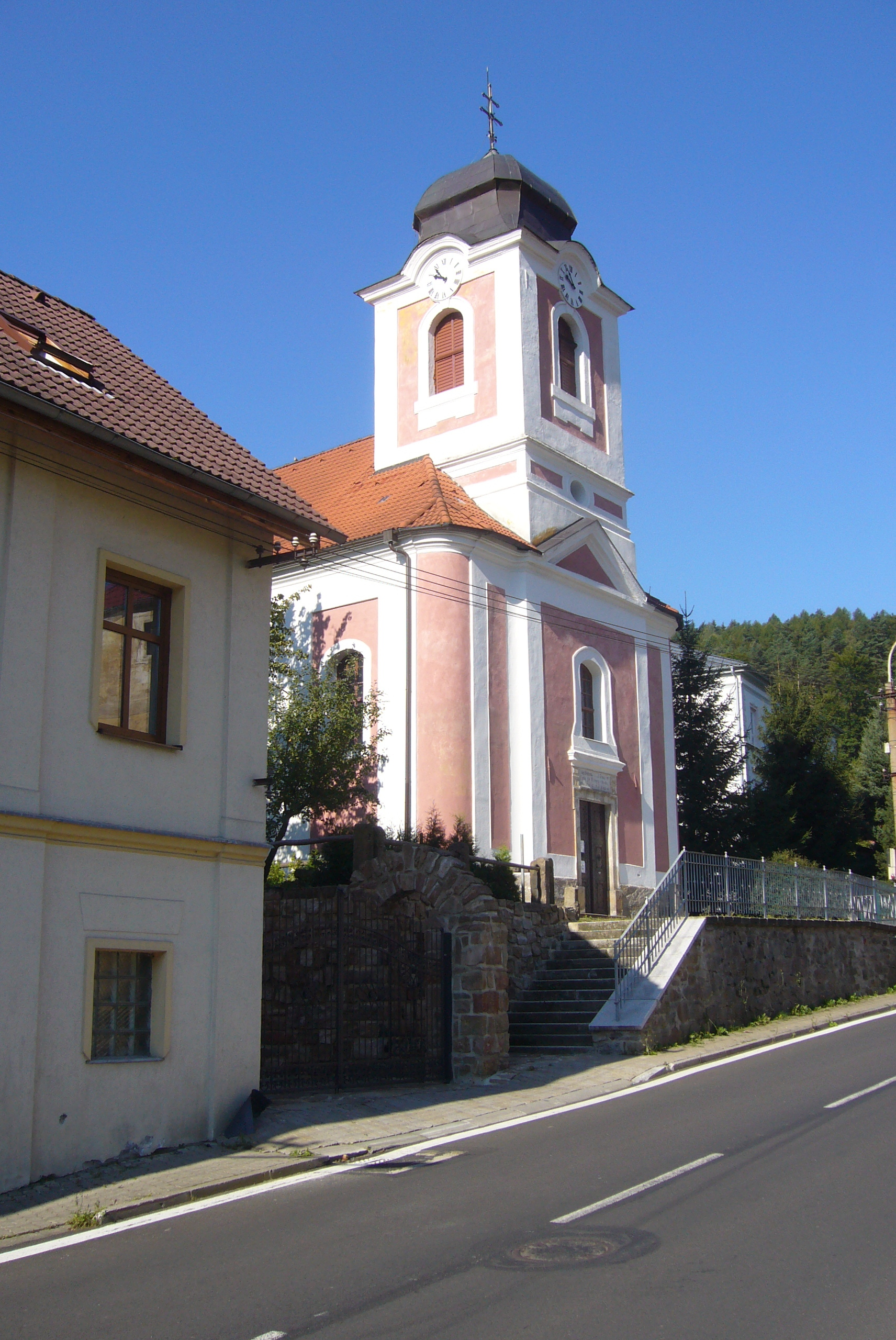 St. Vendelín Church in Perštejn